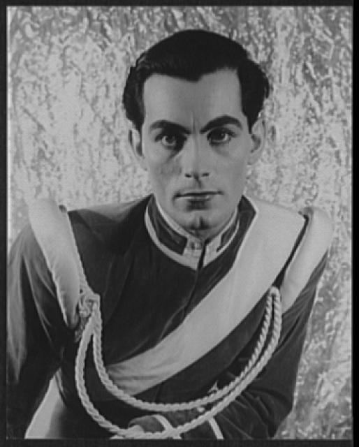 Title: Portrait of Hugh Laing, in Jardin aux Lilas Abstract/medium: 1 photographic print : gelatin silver.